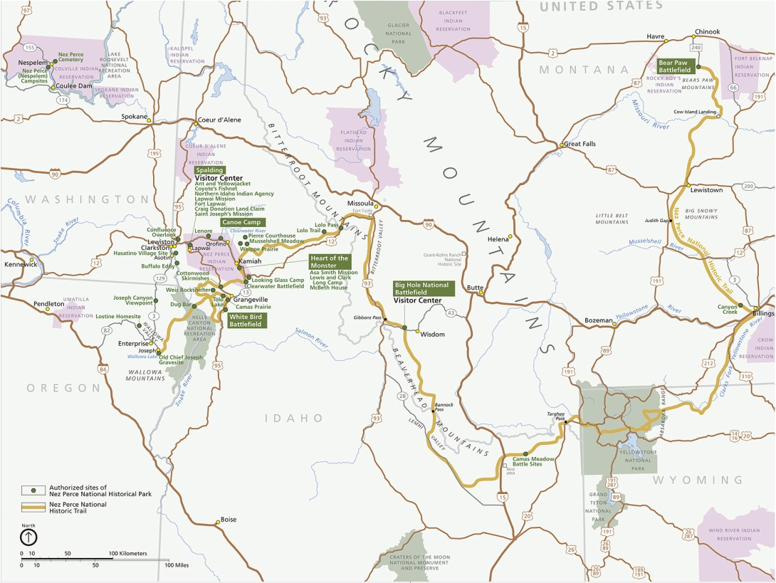 Nez Perce War 1877 Chief Joseph Trail